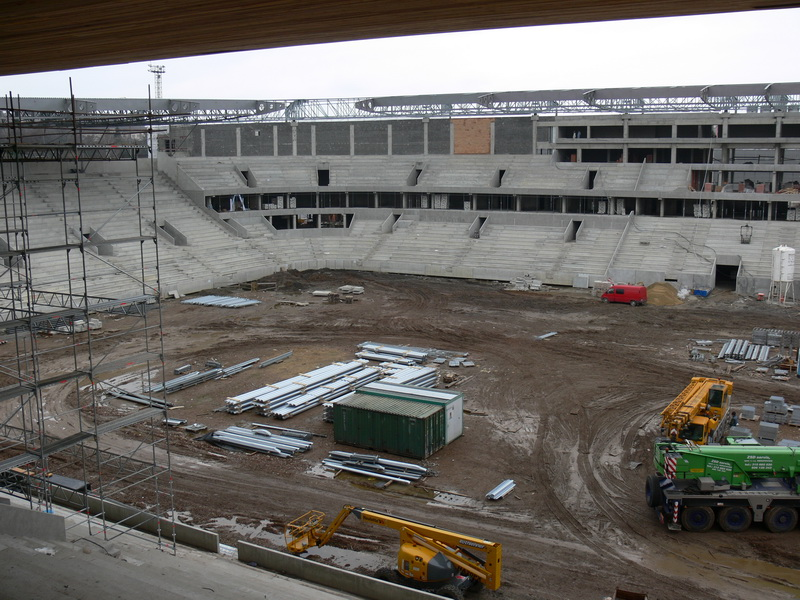 Eden Stadium, south-west corner